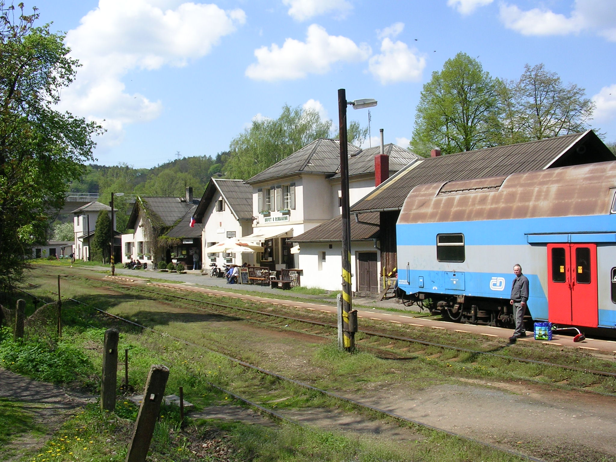 Davle, the Czech Republic. Train station.